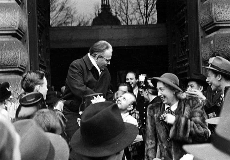 Translation of the original caption from the German Federal Archive: Hamburg, Veit Harlan after trial Illustration-dpd Veit Harlan acquitted After a trial of nearly eight weeks, which developed into a fundamental discussion about artistic responsibility, the Hamburg Criminal Court delivered its verdict concerning Veit Harlan, director of the controversial film "Jud Süß", on the morning of April 23, 1949 - and acquitted him. Our picture shows Veit Harlan as leaves the court building on the shoulders of his supporters. April 23, 1949 3155-49-49 Persons depicted: Harlan, Veit: Actor, film director, Germany